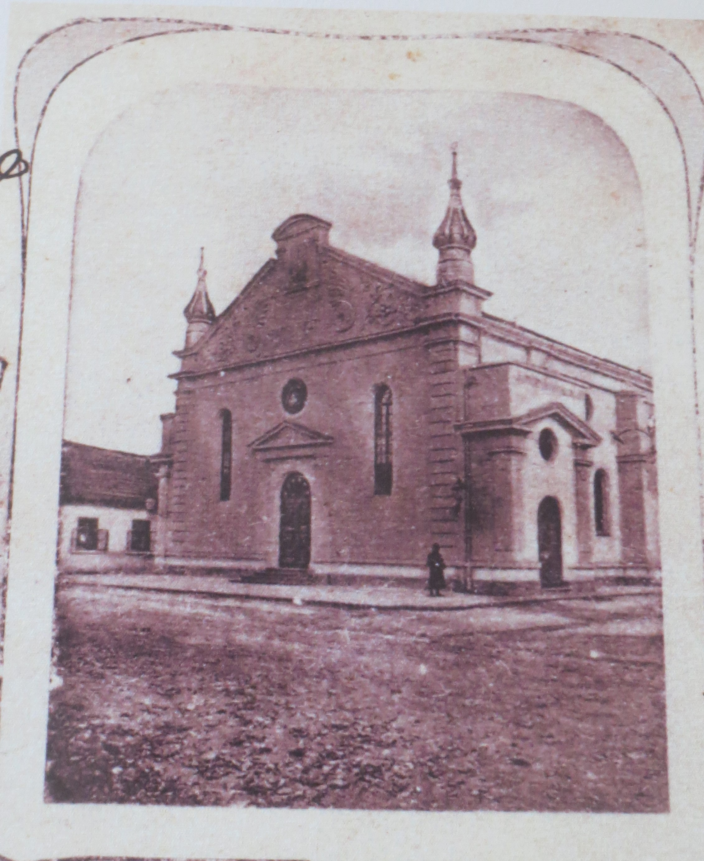 Levice Synagogue before 1883